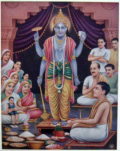 Here, unusually, ordinary human devotees (of Vishnu as Satyanarayan) are shown, with a priest, in a Bengali religious print (c.1940's?) Source: ebay, Oct. 2006